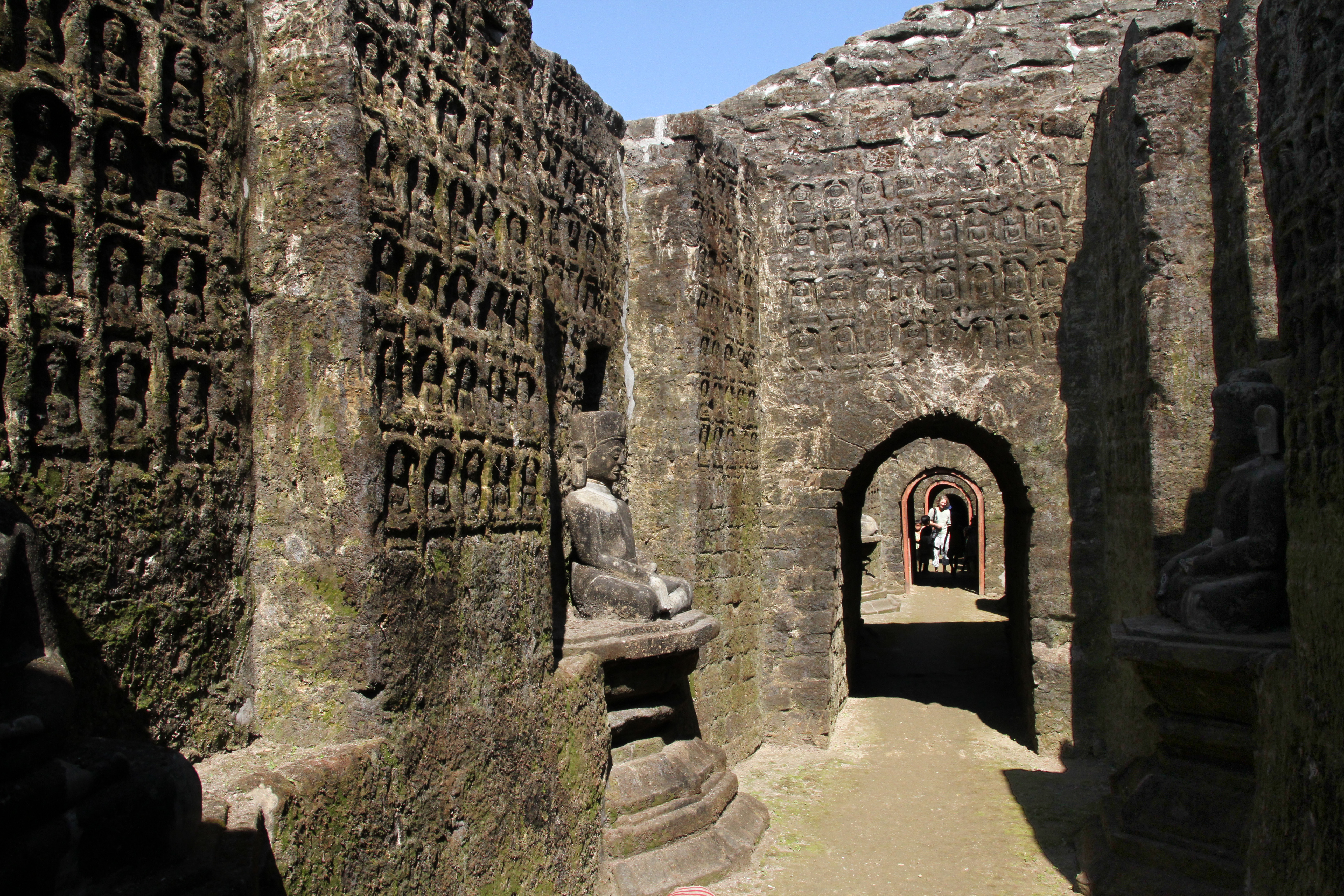 Koe Thaung temple in Mrauk U, Myanmar.